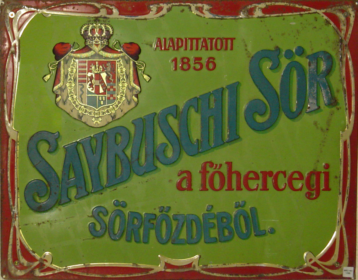 Picture from Żywiec Brewery Museum